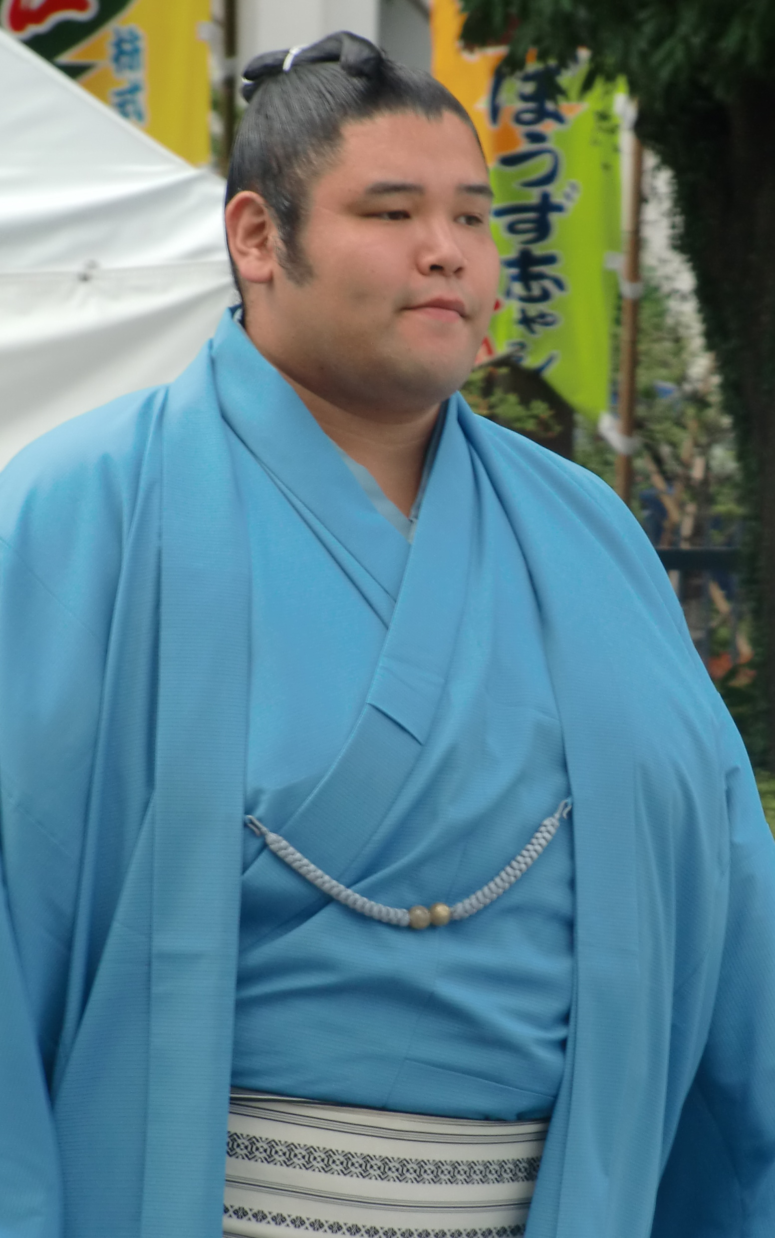 taken at 2010 Sept. tournament